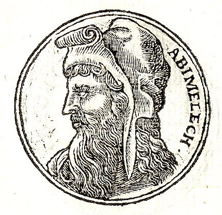 Abimelech was a son of the great judge Gideon (Judges 9:1)